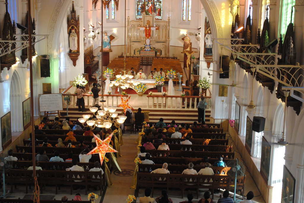 Holy Mass at San Thome Church